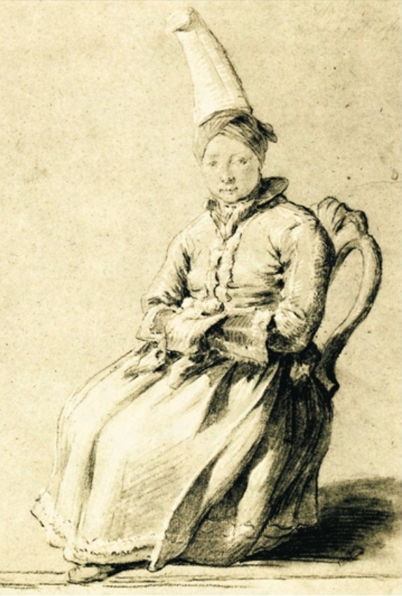 Woman in Patreksfjörður, Iceland, year 1772. Drawing by Pierre Ozanne